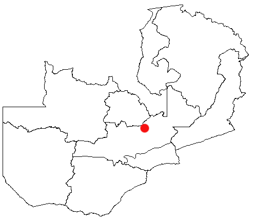 Kapiri Mposhi, Zambia Location Map